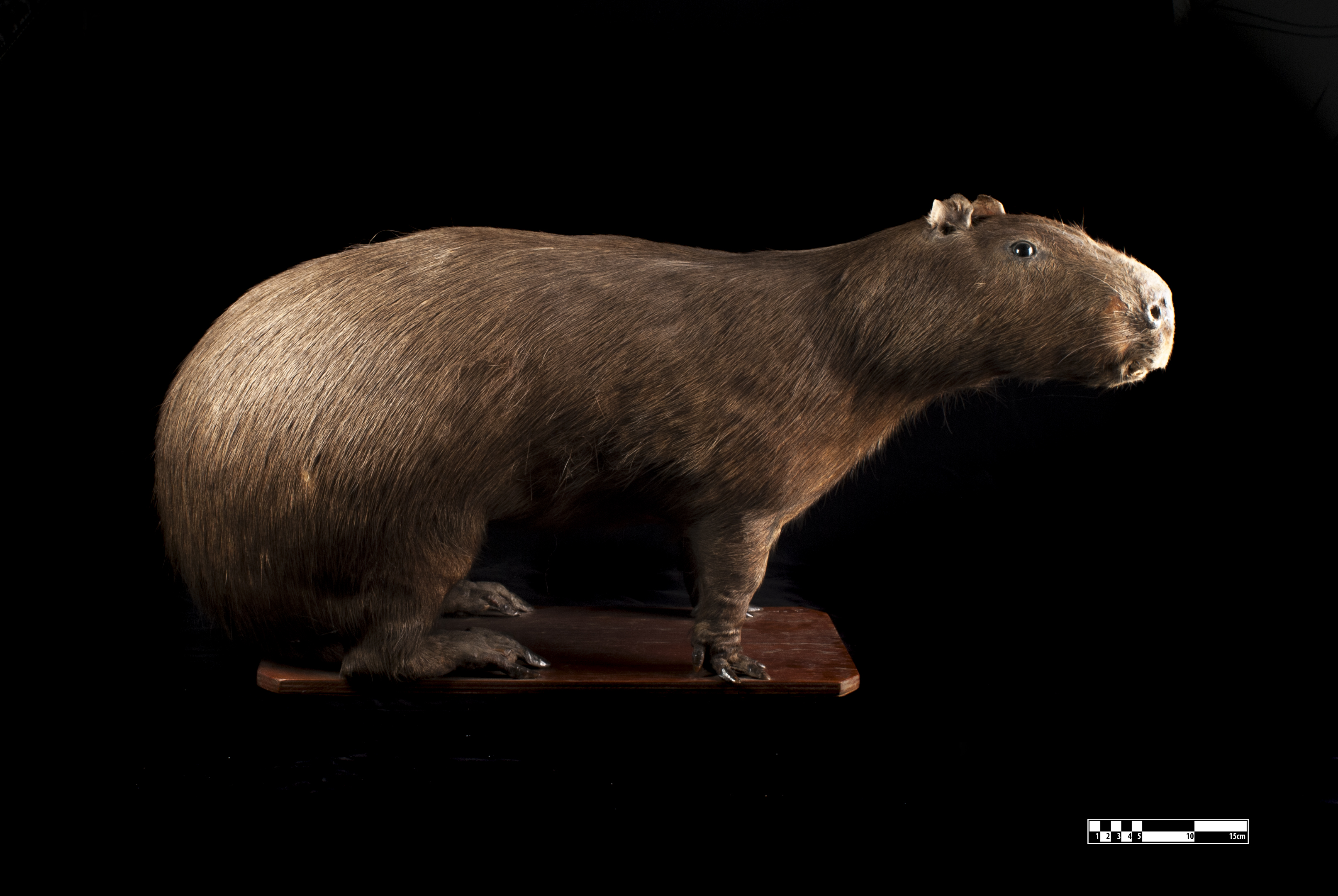 Capybara (Hydrochoerus hydrochaeris). Taxidermy specimen of the world's largest rodent on display at the Museum of Veterinary Anatomy FMVZ USP. This file was published as the result of a partnership between the Museum of Veterinary Anatomy FMVZ USP, the RIDC NeuroMat and the Wikimedia Community User Group Brasil. This GLAM project is reported. Photography: Museum of Veterinary Anatomy FMVZ USP. Author: Wagner Souza e Silva.